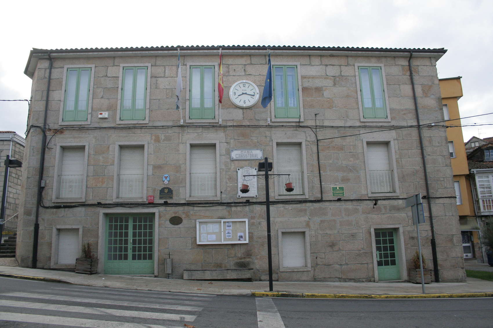 Town Hall in Maceda (Spain)